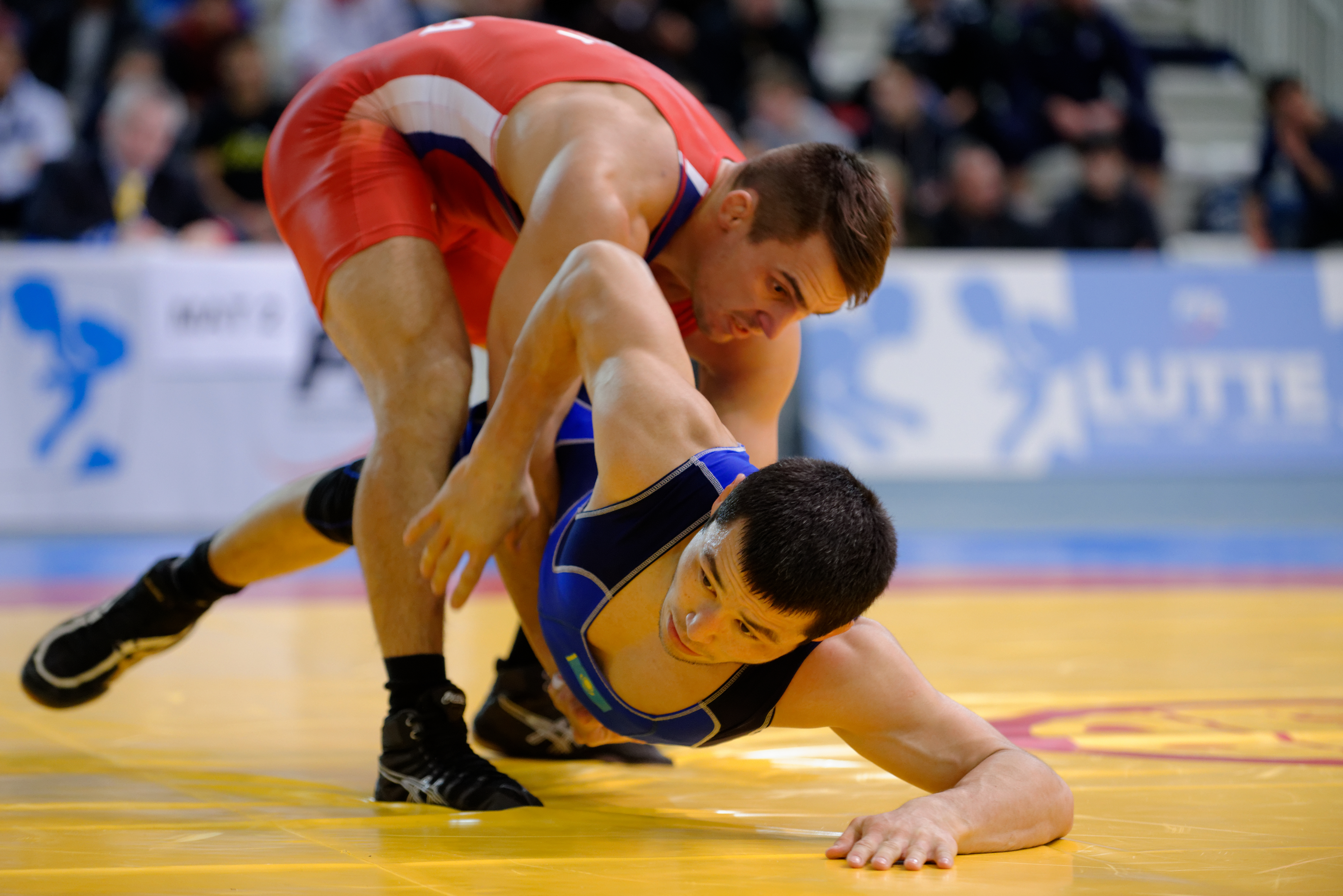 France's Steeve Guénot (red) wrestles Demeu Zhadrayev of Kazakhstan (blue) in the Greco-Roman 71kg Nordic round at the Golden Grand Prix of Paris.